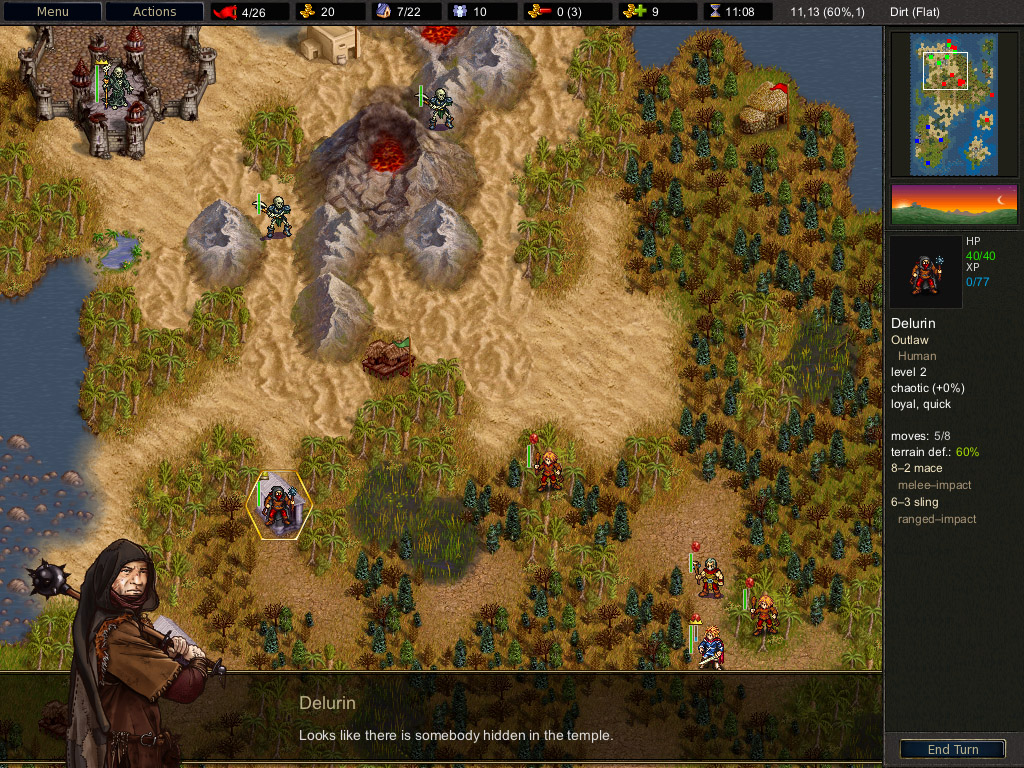 screenshot of Battle of Wesnoth, version 1.9.0